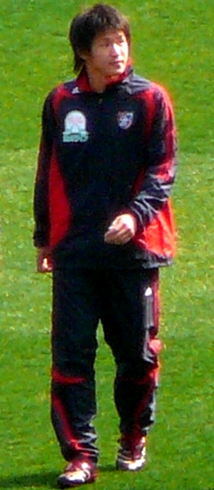 Kazunori Yoshimoto from FC Tokyo